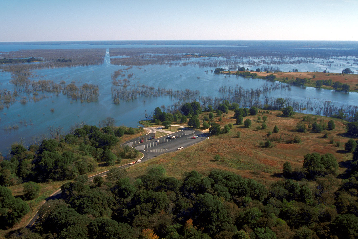 Aerial view of Cooper Lake on the South Sulphur River in Delta County, Texas, USA. The lake and dam are located approximately 13 miles (20 km) north of Sulphur Springs, Texas in . The U.S. Army Corps of Engineers constructed the dam in 1991 for flood control and water supply. The lake was renamed Jim Chapman Lake in 1998 by order of the President Clinton in honor of the local senator. However, it apparently still known more commonly by the old name, Cooper Lake. Coordinates: 33°19′25.12″N 95°38′45.39″W / 33.3236444°N 95.6459417°W